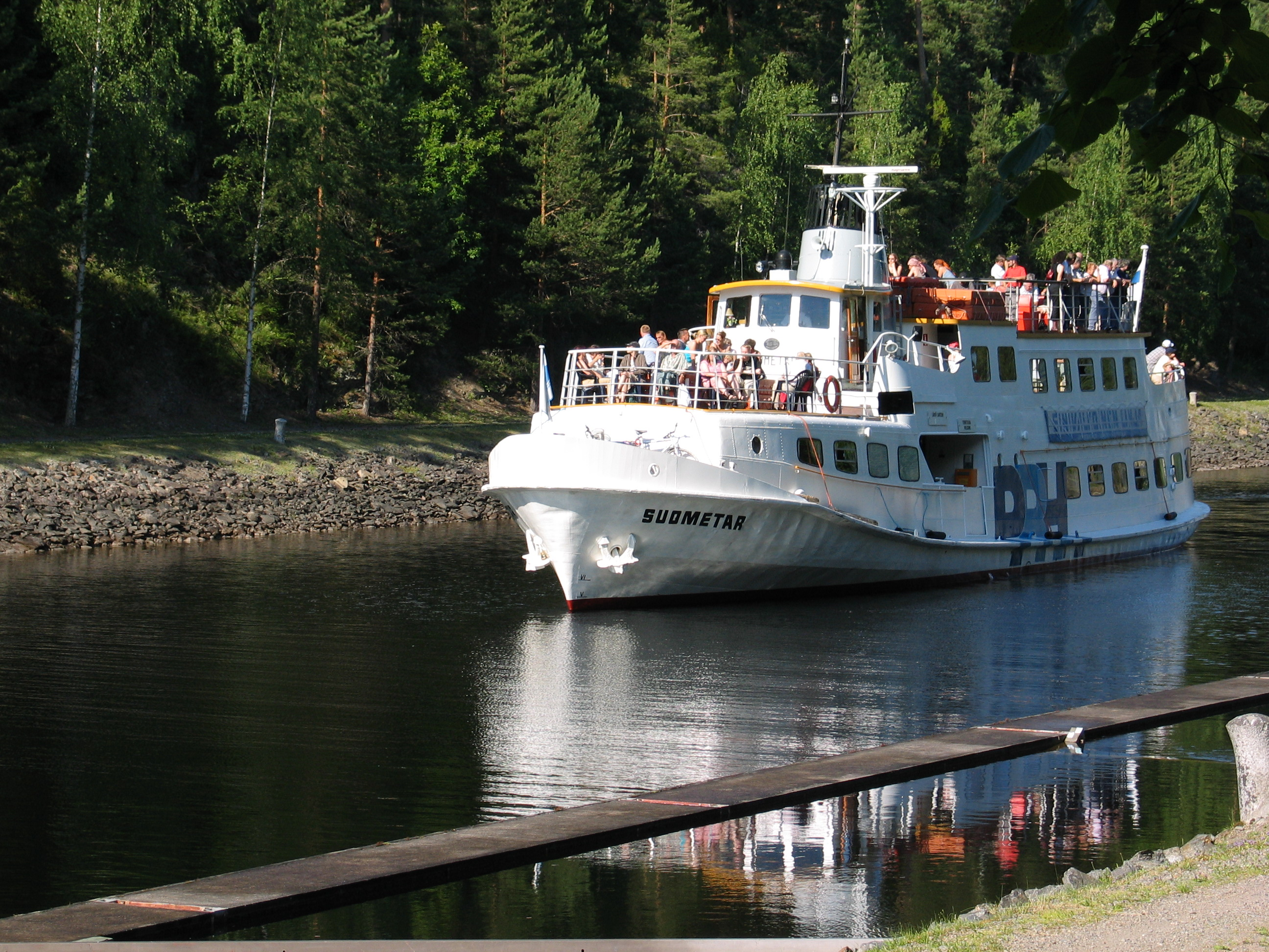 M/S Suometar in Kalkkinen Canal, Asikkala, Finland